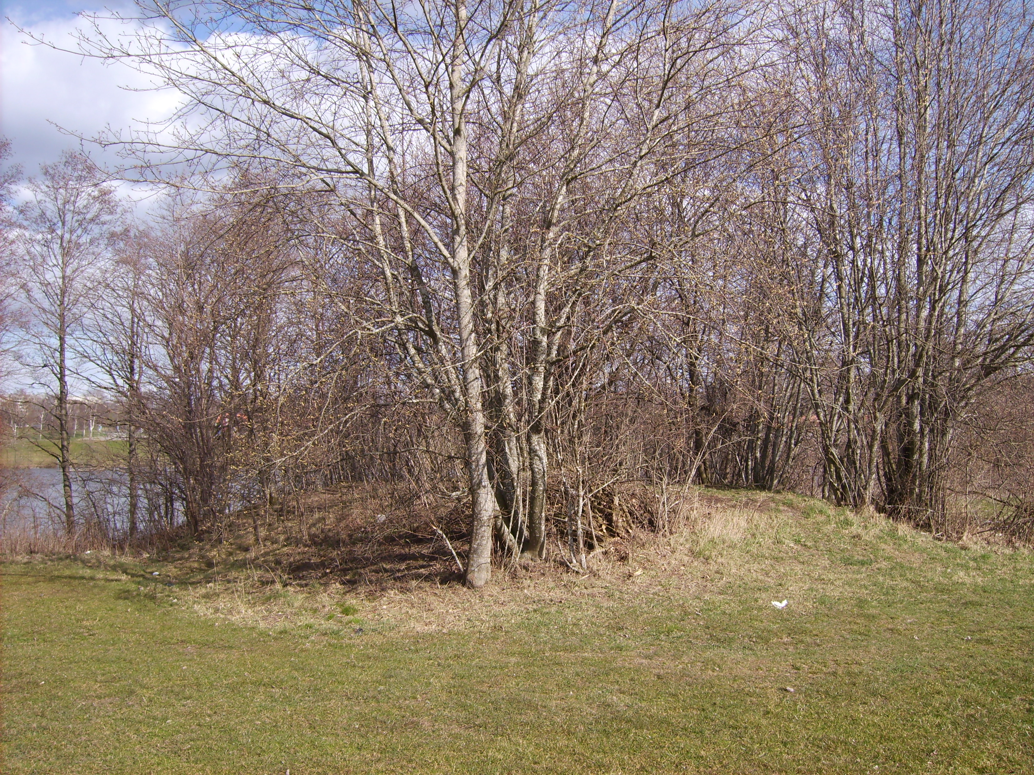 Photo by Harri Blomberg.